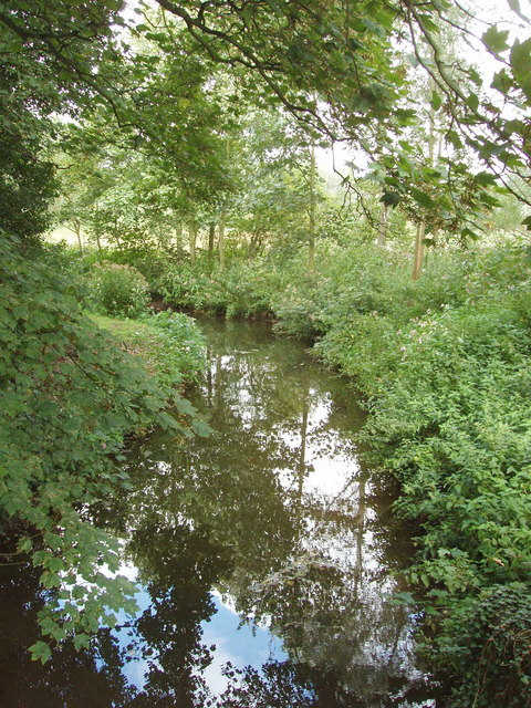 River Box, Stoke by Nayland. View from Scotland Street bridge.